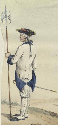 1761 sargento - Regimento de Saboya